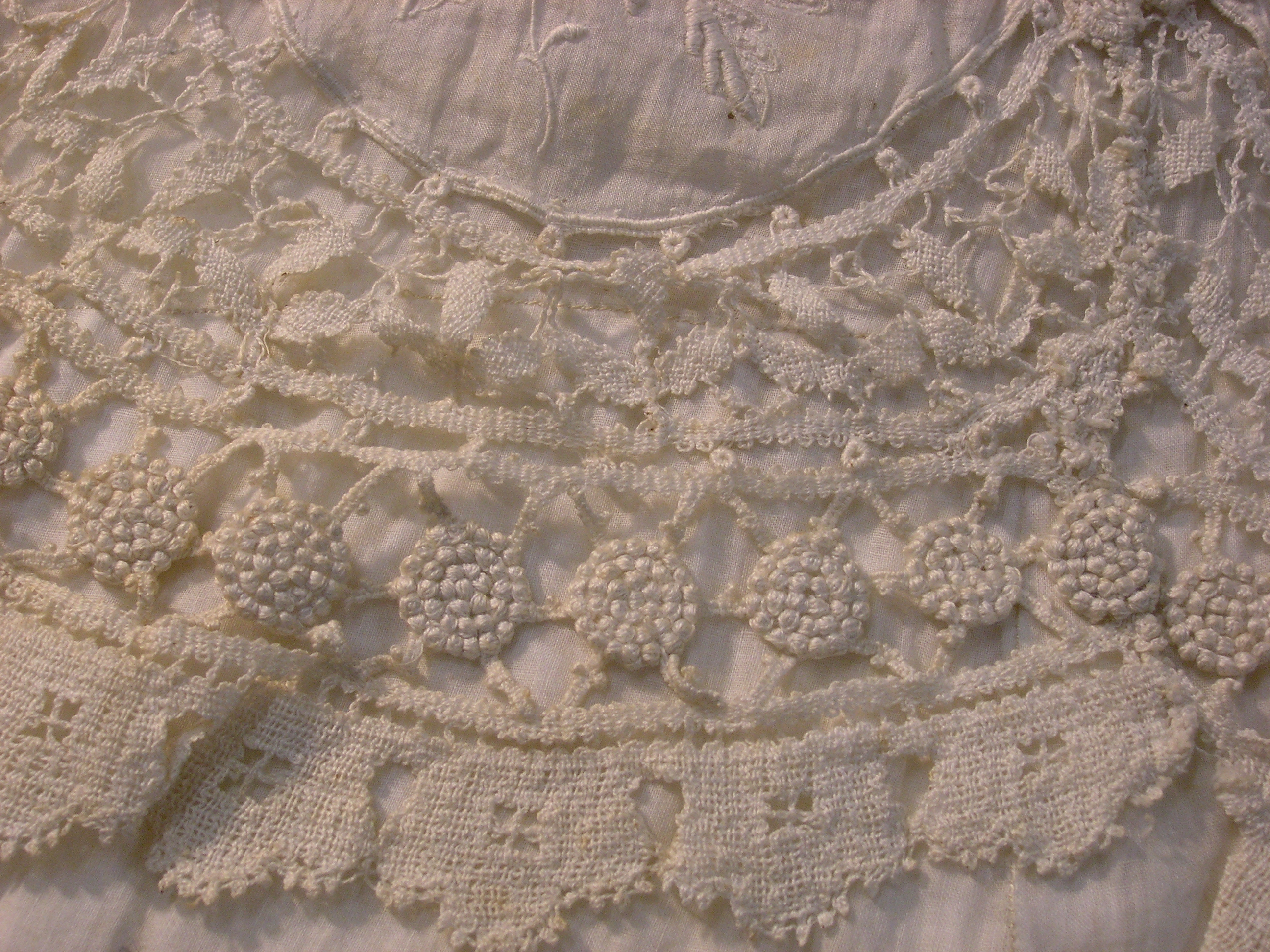 dress, white, lace trimmed and pintucked, stained “CREAM EMBROIDERED TEA GOWN cream cotton muslin with various machine made laces embroideries etc. Bodice fine vertical tucks and on sleeves cut in with bodice. Collar, cuffs and bodice trimmed. Rather high waist line swathed with cream satin sash. Back fastening (12 hooks and eyes, and 8 minute pearl buttons). Skirt full length, fairly narrow with embroidery loose flounce from waist over hips. Another deep flounce below the knees. Unlined.”